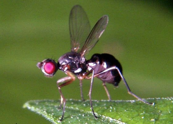 fly in the family Sepsidae (black scavenger flies) at Winfield IL USA